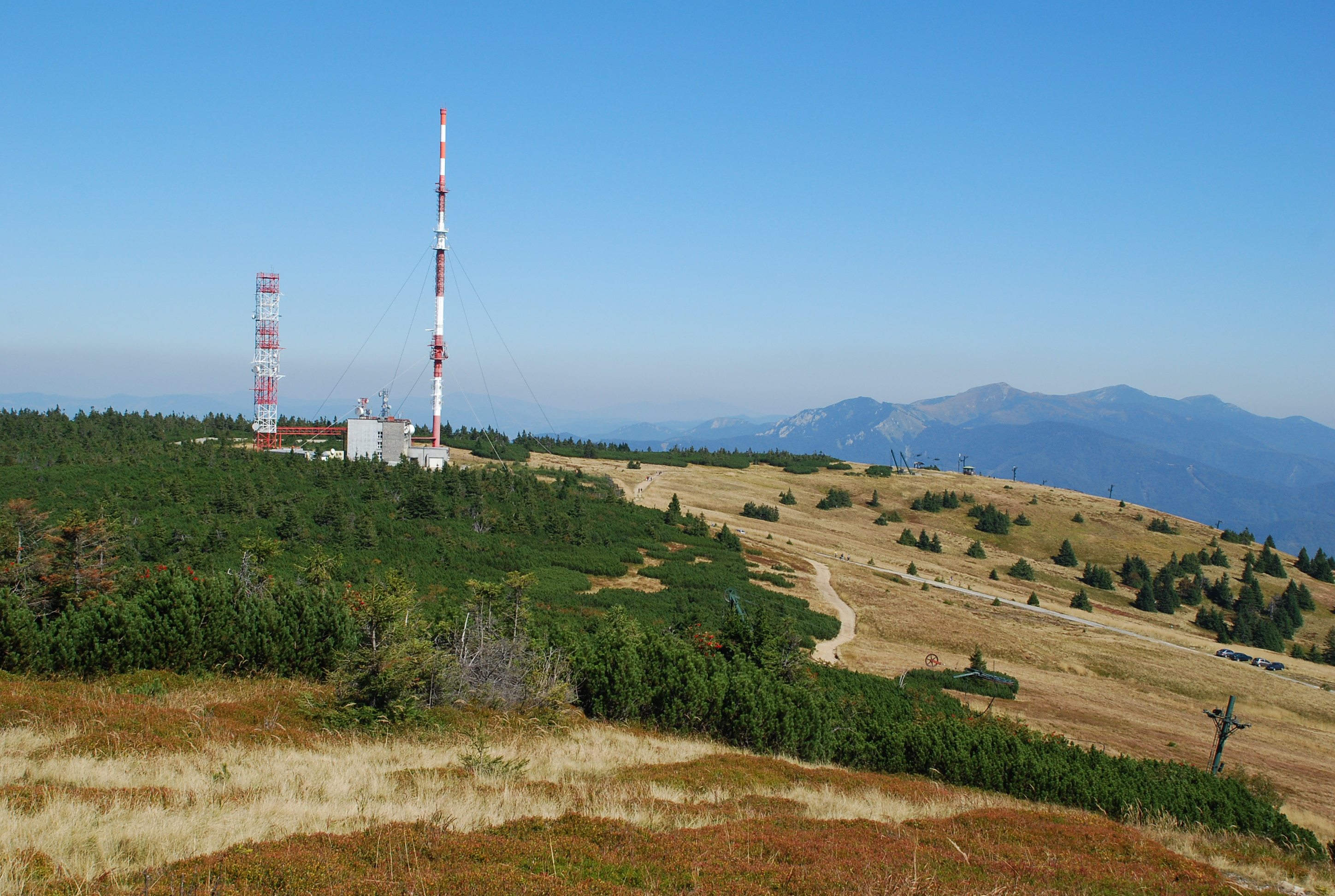 Martinské Hole, Martin, Slovakia. Krížava transmitter.